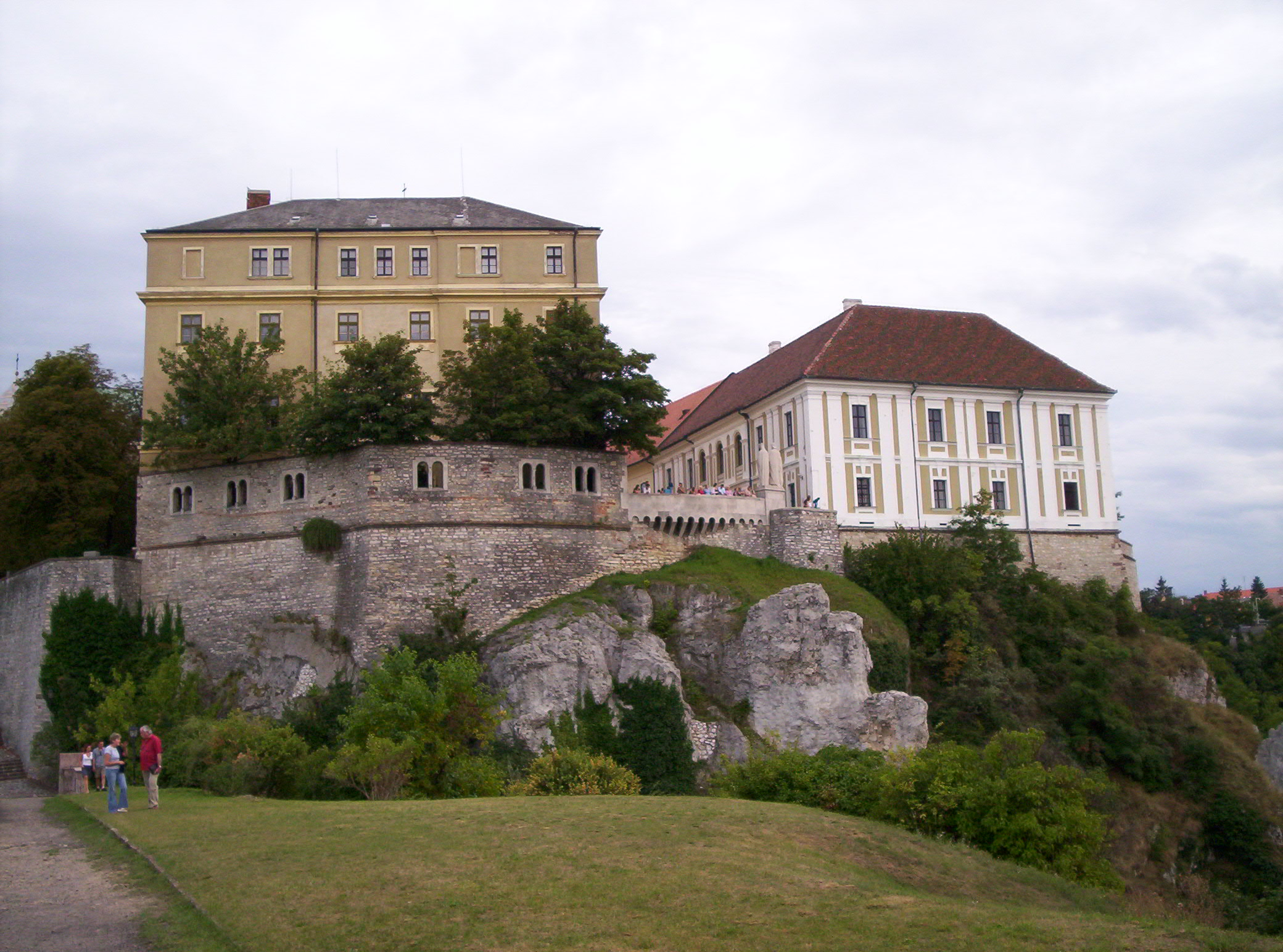 Castle from St. Benedict Hill, Veszprém